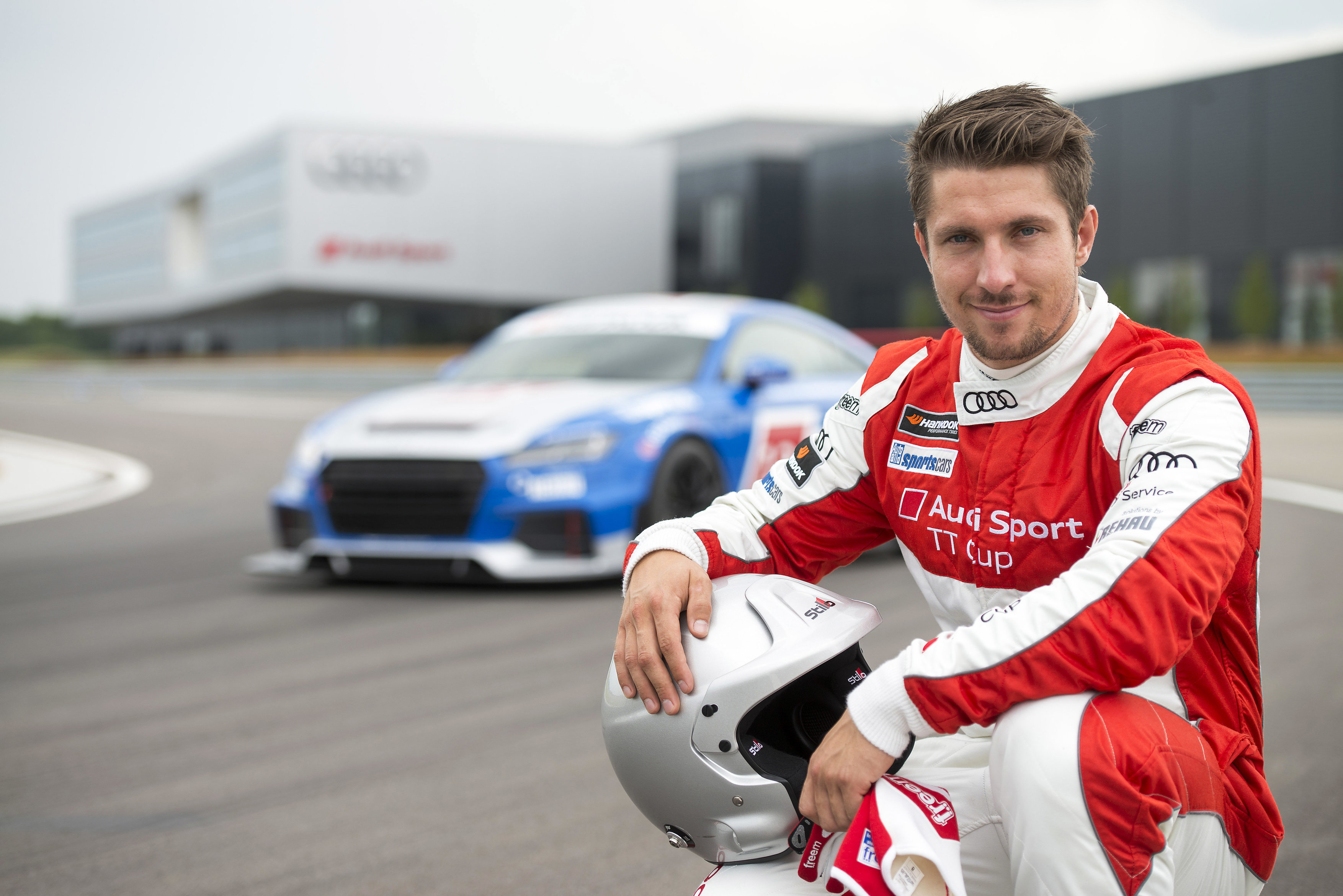 Marcel Hirscher